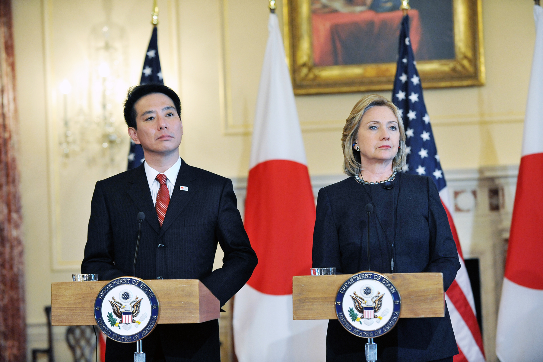 U.S. Secretary of State Hillary Rodham Clinton and Japanese Foreign Seiji Maehara hold a joint press availability in the Benjamin Franklin Room at the U.S. Department of State in Washington, D.C., on January 6, 2010.